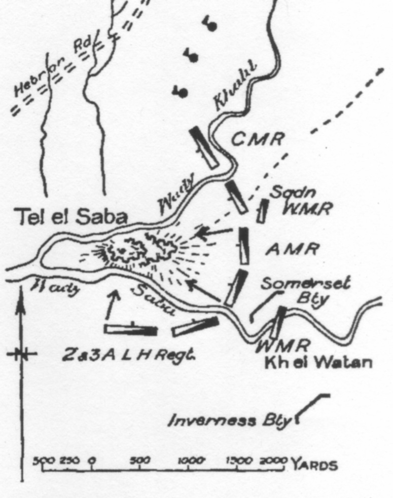 Gullett's Sketch Map on page 390 of the Tel el Saba attack